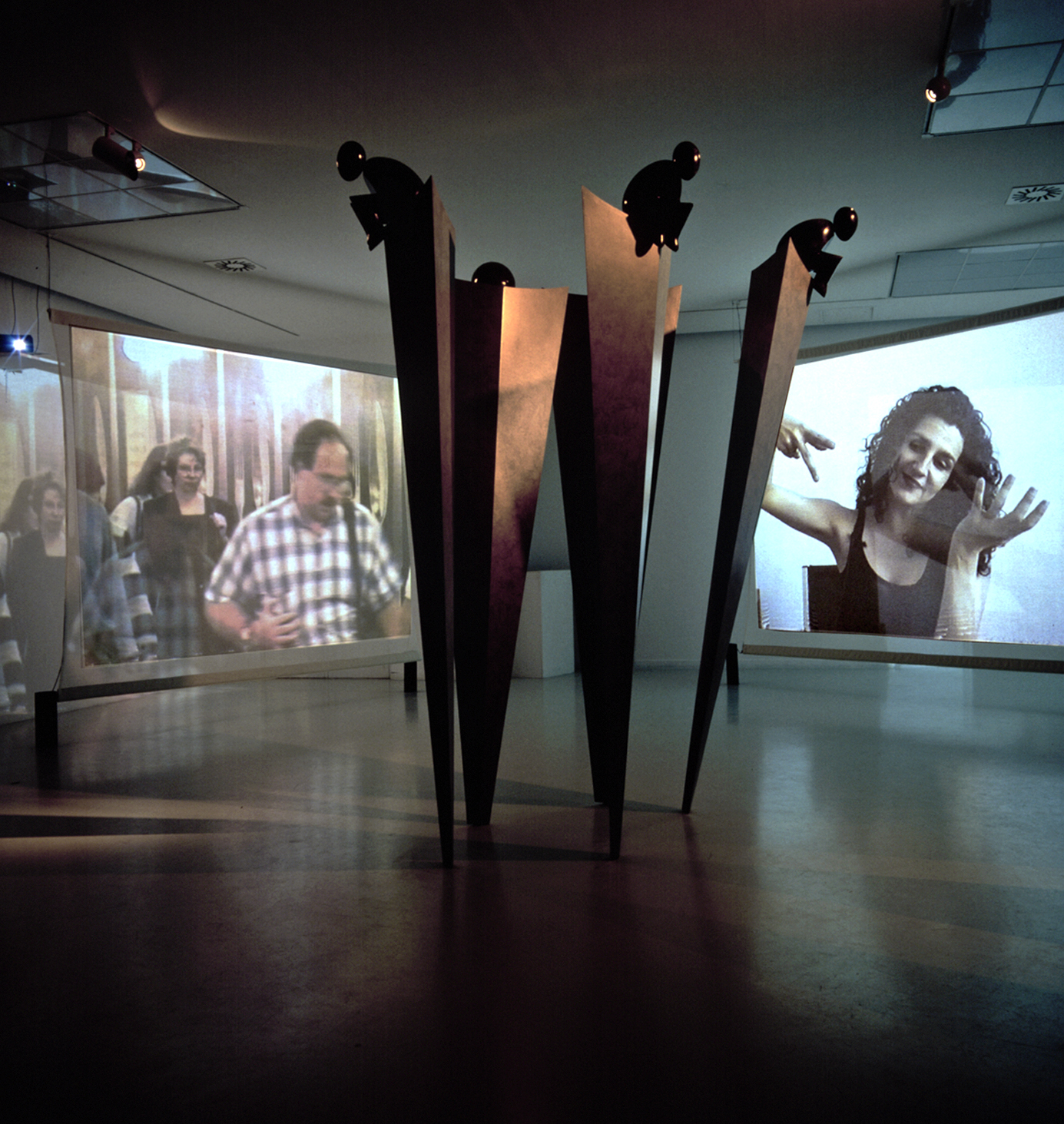 The Architectural Film, Alex Vermeulen, Museum of Modern Art, Antwerp (B) 1999